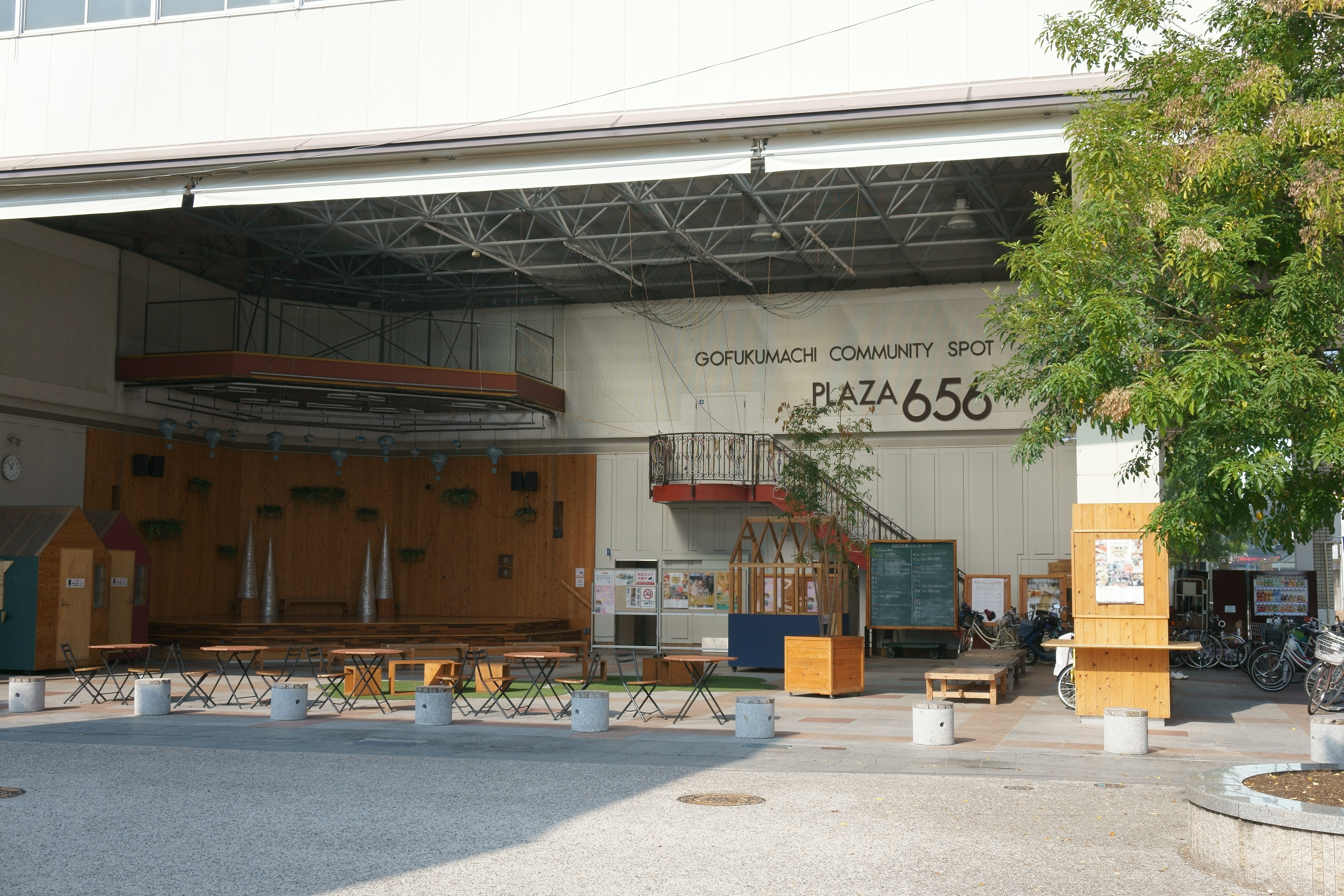 "Plaza 656"(Mutsugorō Hiroba), an event square at the Gofukumachi shopstreet in Saga city, Saga prefecture.